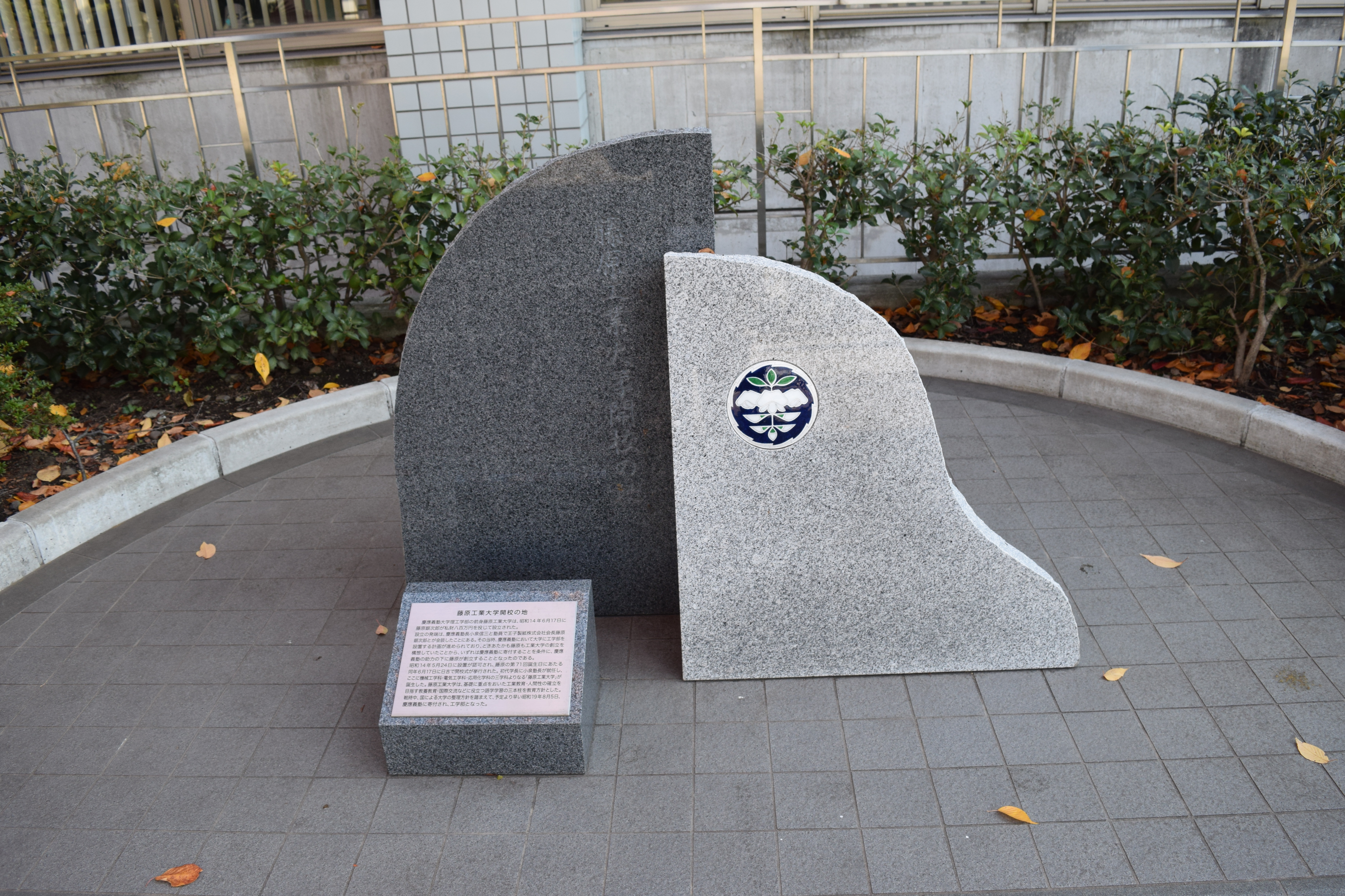 Monument of Fujiwara Institute of Technology